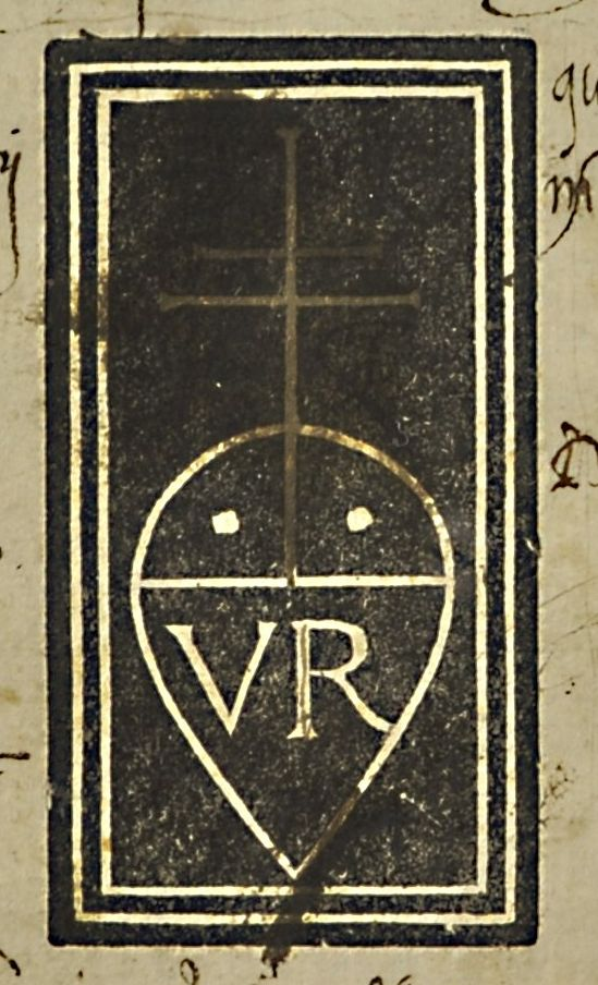 Ruggeri's mark